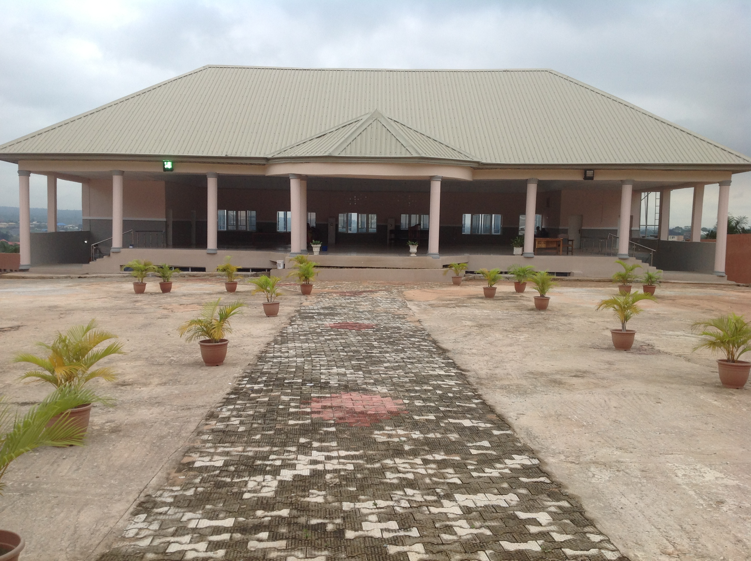 Godfrey Okoye University's Convocation Arena